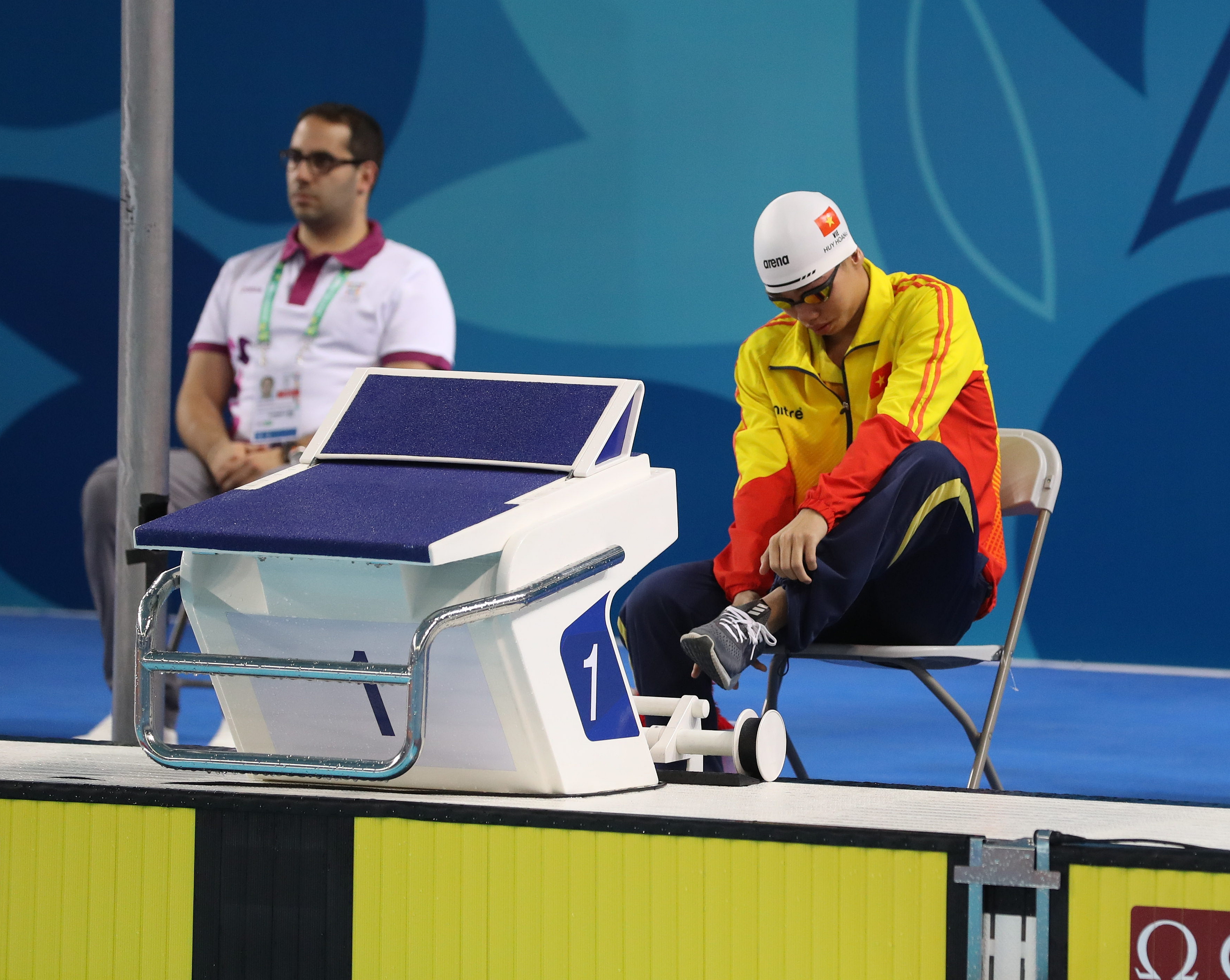 Swimming of boys' 400 m freestyle final at the 2018 Summer Youth Olympics in Buenos Aires on 7 October 2018.